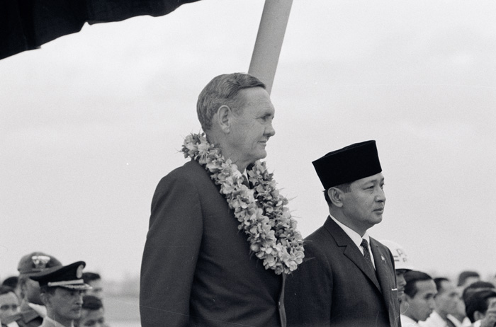 Prime Minister John Gorton with Indonesian President Suharto in 1968